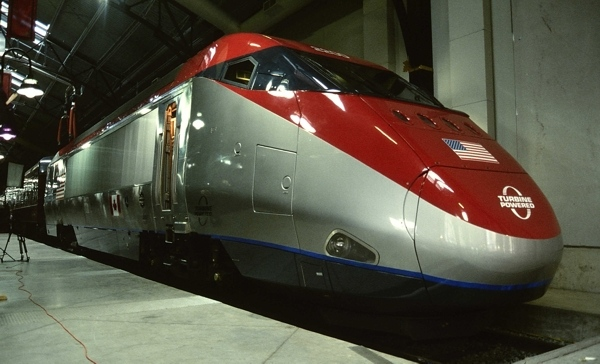 Picture of the Bombardier JetTrain.